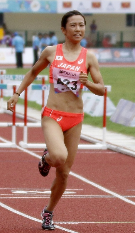 picture taken at the 2017 Asian Athletics Championships in July 2017 in Bhubaneshwar, Swapna Barman is 256, Meg Hemphill of Japan is 393, Eri Utsononiya is 423, Liksy Joseph is 266